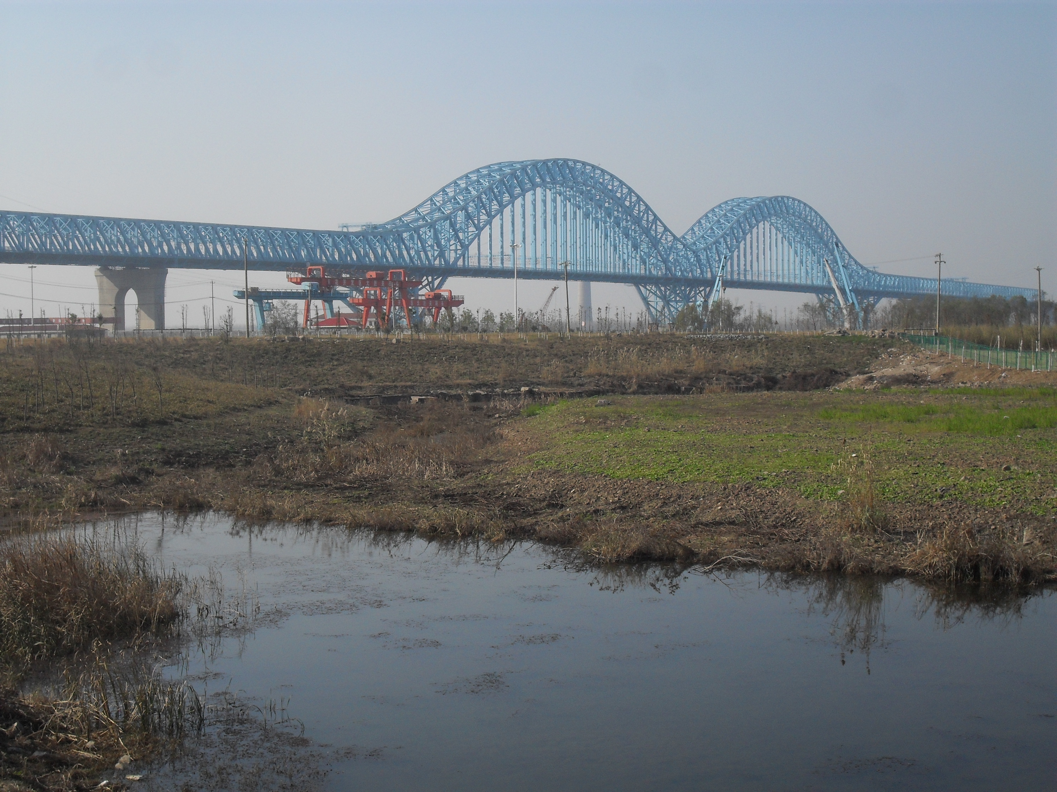 南京大胜关铁路桥 The Dashengguan railway bridge